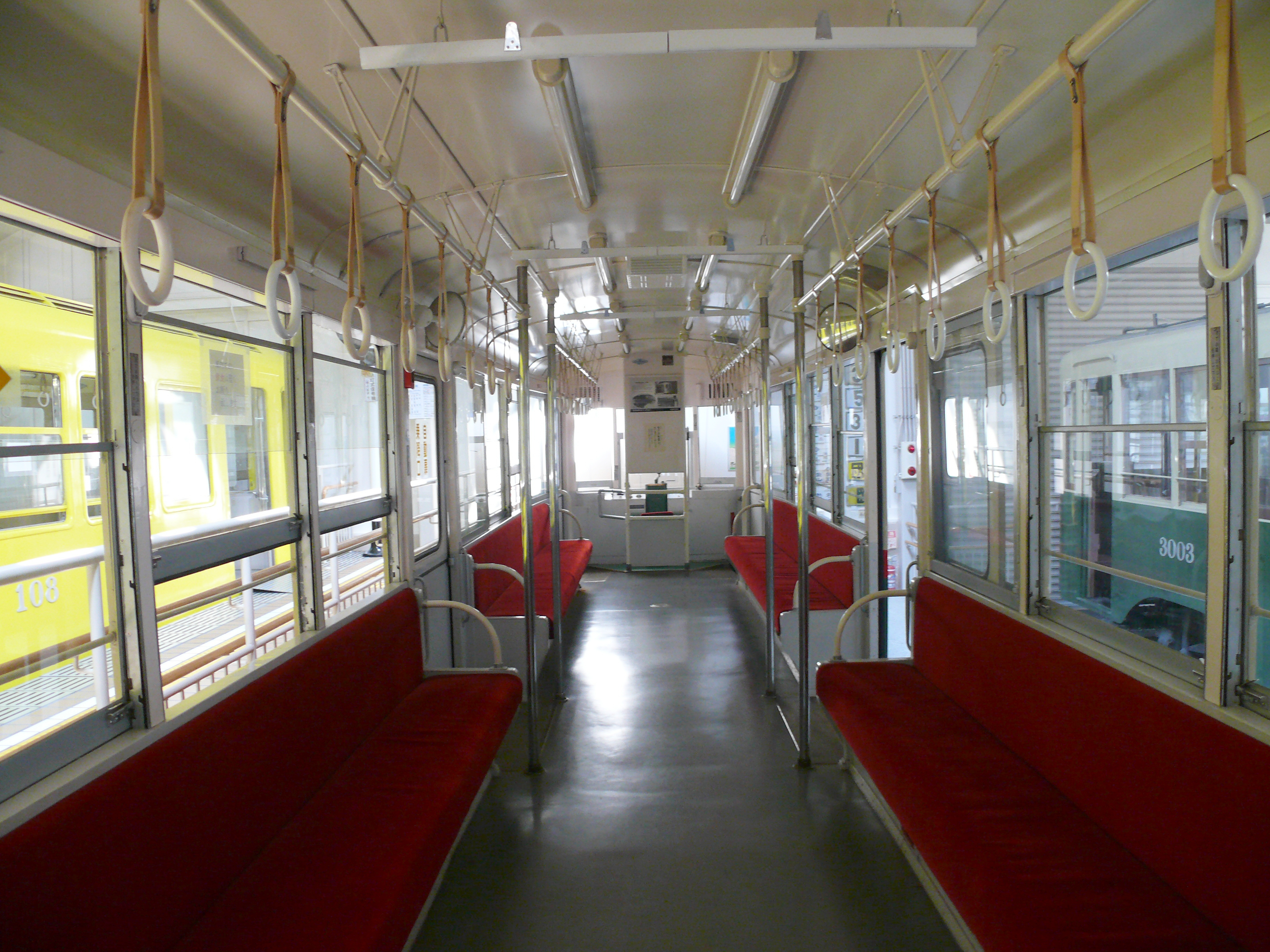 Nagoya City Tram & Subway Museum.